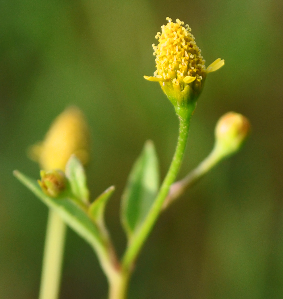 Acmella uliginosa, flower heads. Sindangbarang, Bogor, West Java.